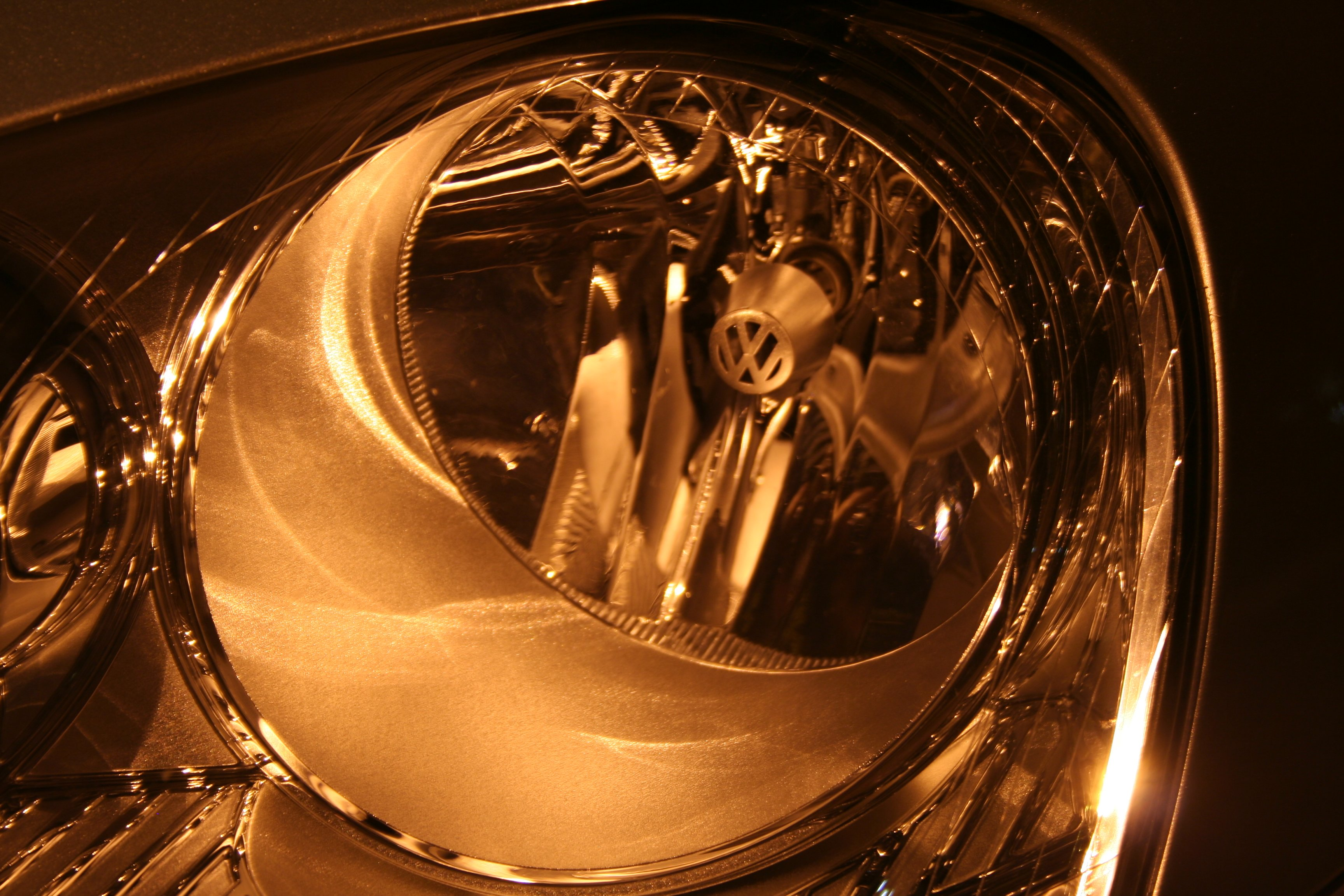 The headlight of a fifth generation Volkswagen Jetta. Photo obtained from taken by user Mulad[1]. Licensed under Creative Commons.